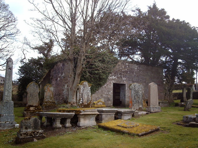 Mausoleum of the Shaw-Stewart Family The old graveyard at Inverkip houses the now roofless mausoleum of the Shaw-Stewarts from nearby Ardgowan 130764.